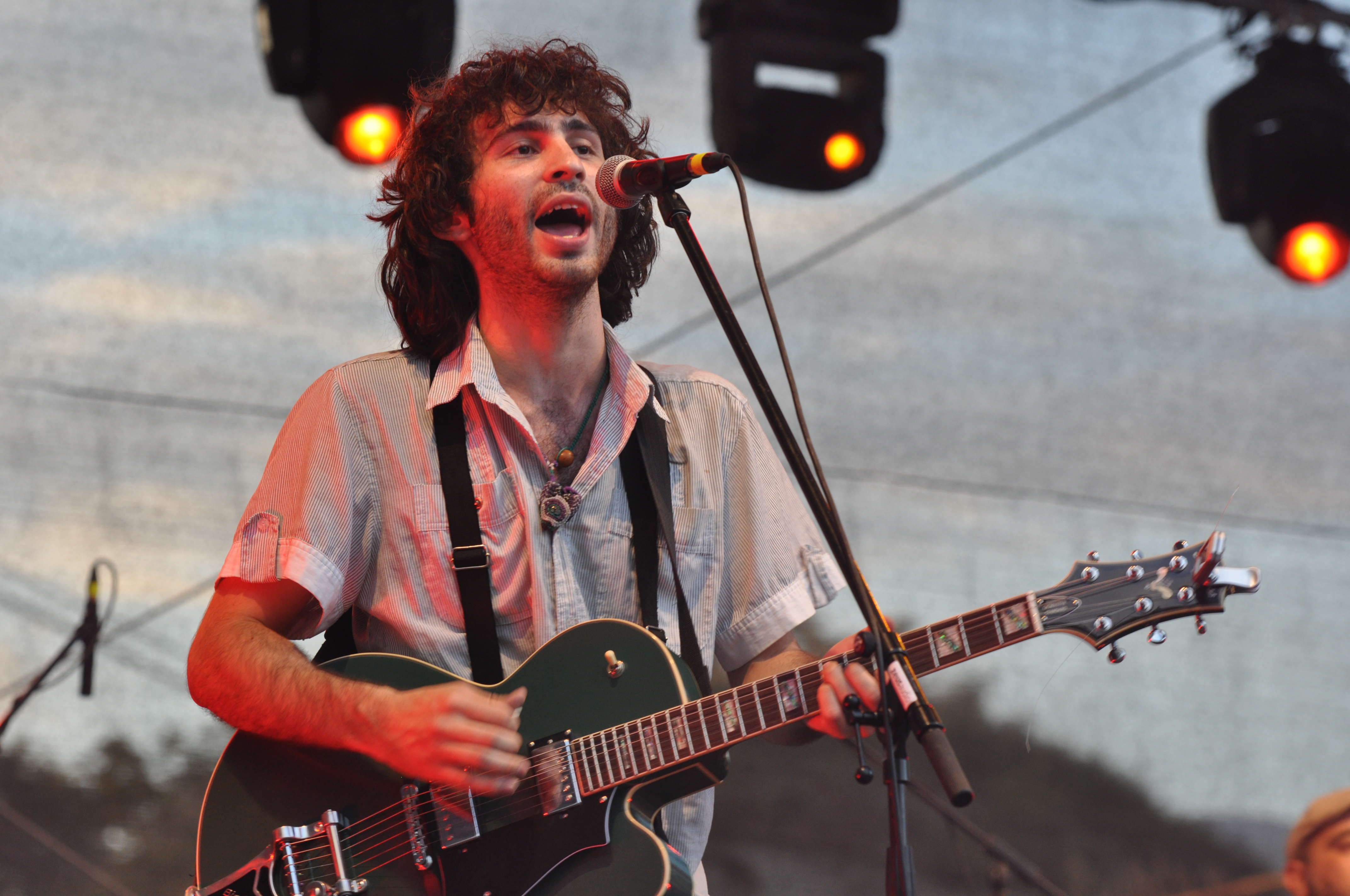 Rosario Smowing (AR), appearance at the 12th World Music Festival "Horizonte" 2014 at the fortress of Ehrenbreitstein, Koblenz (Germany)